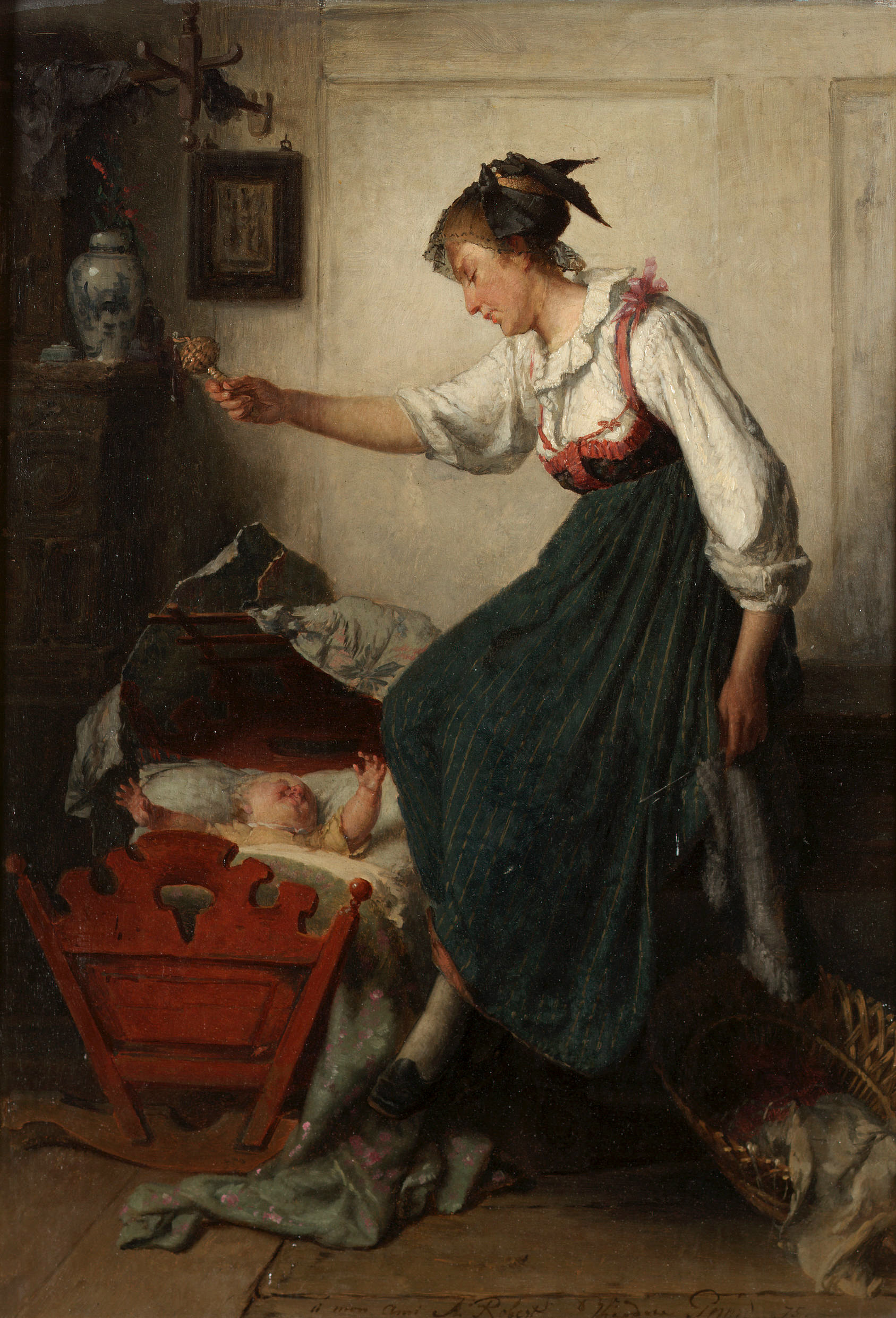 The new rattle. Signed, inscribed and dated a mon ami A. Robert, Theodore Gerard.75.. Oil on panel, 37 x 26 cm